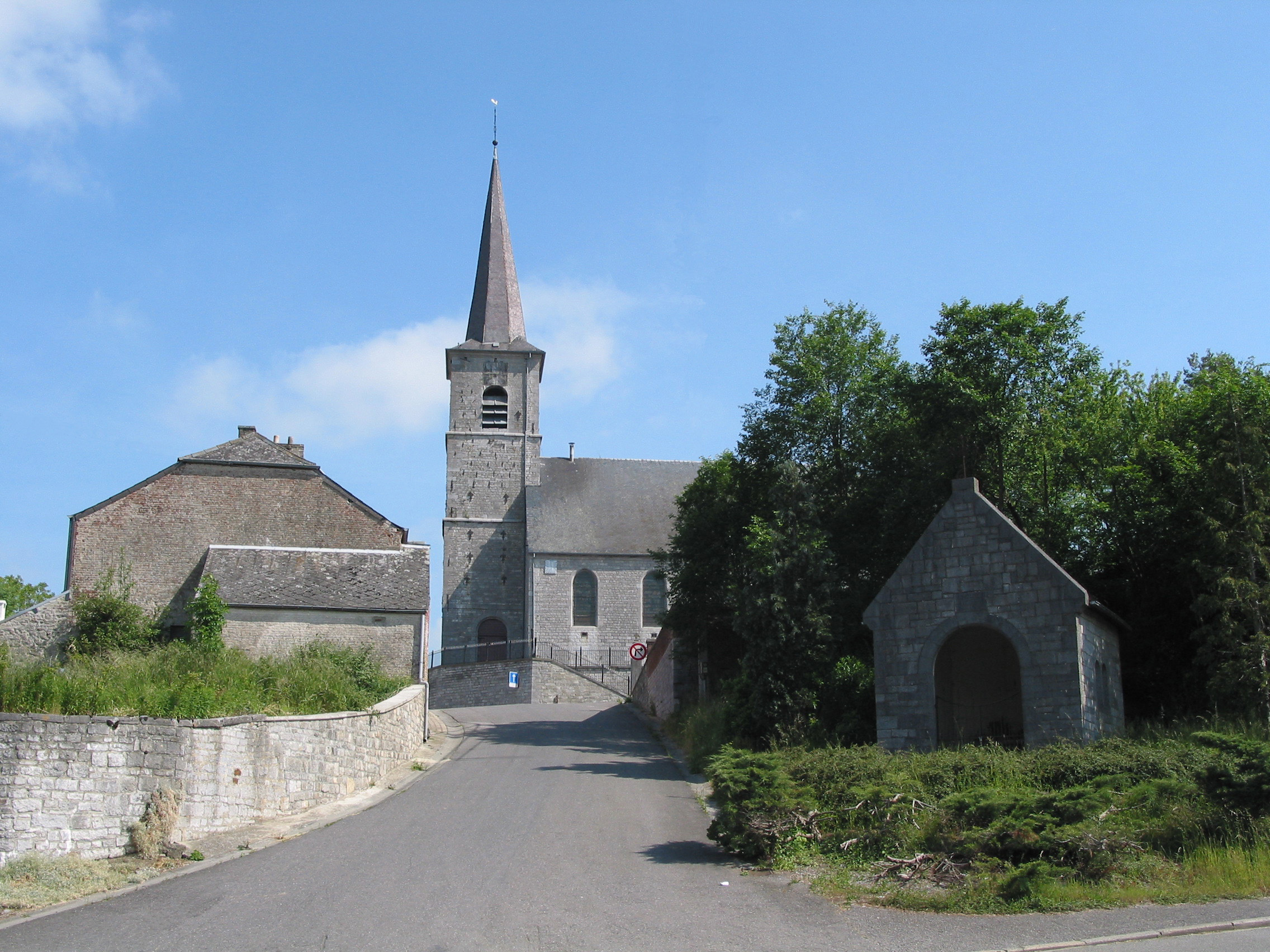 Froidchapelle (Belgium), the St. Aldegonde church (XVI-XVIIIth centuries).